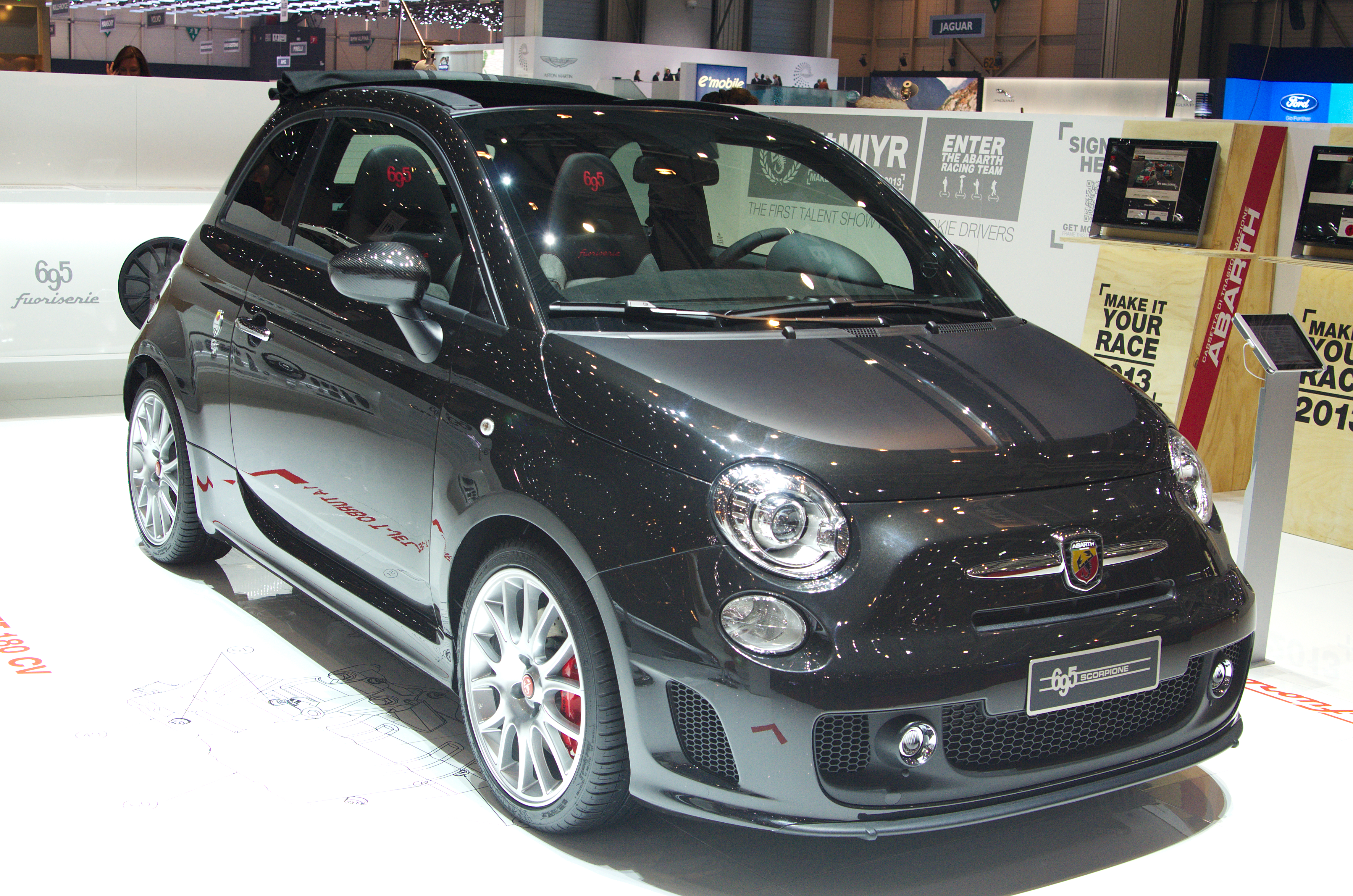 Geneva MotorShow 2013 - Abarth 695 Scorpione